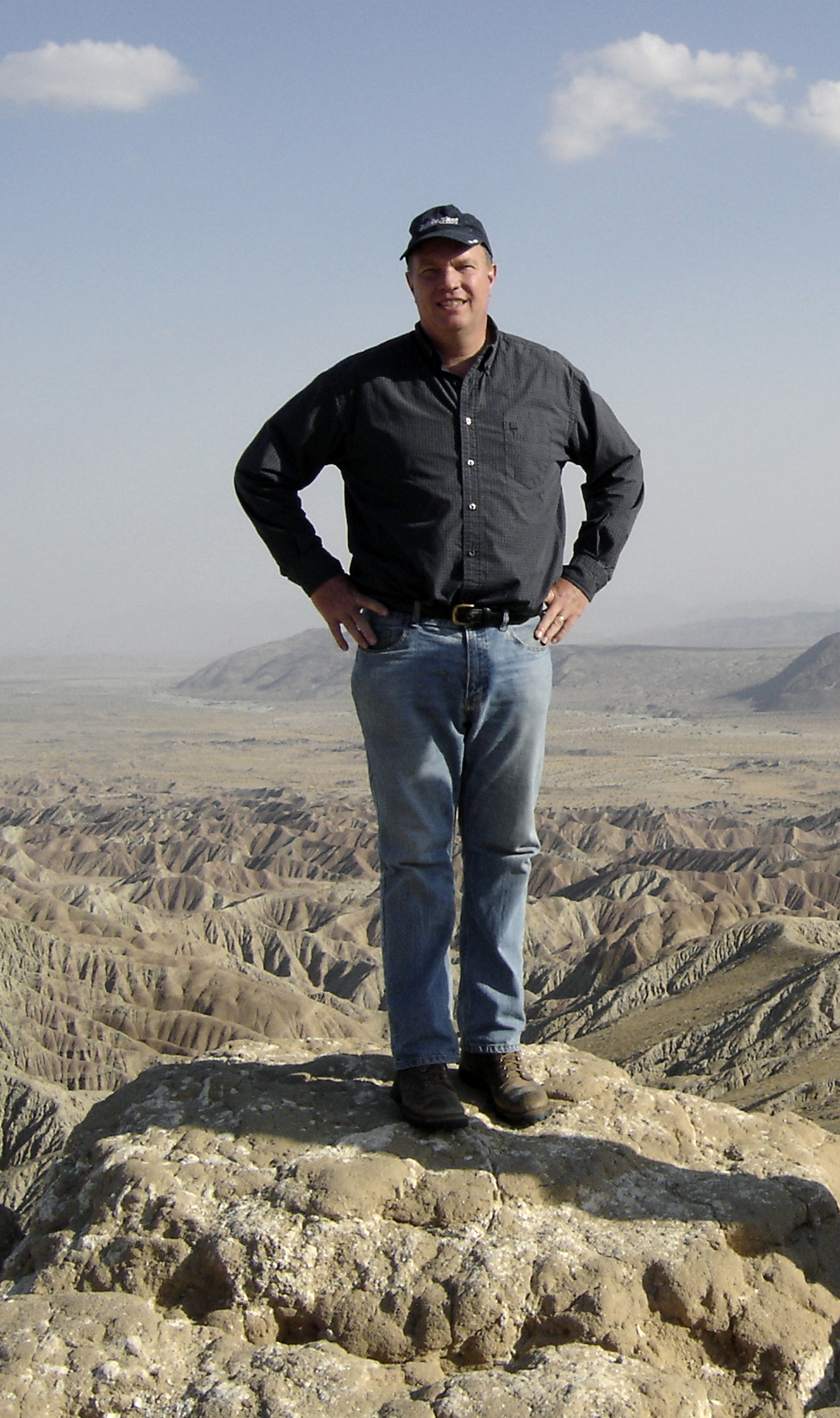 Mark studying rocks in Borrego Springs, CA Badlands.